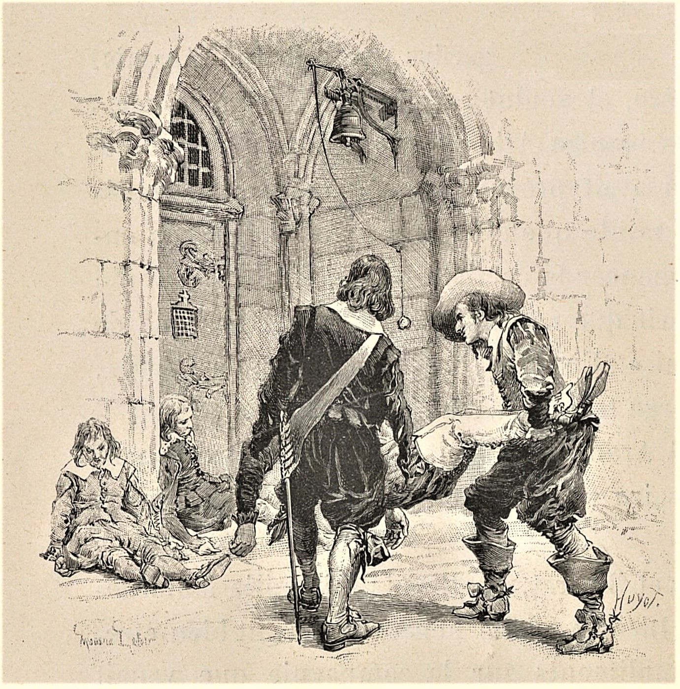 Illustration to Alexander Dumas, pere. Artist Maurice Leloir (1853-1940).